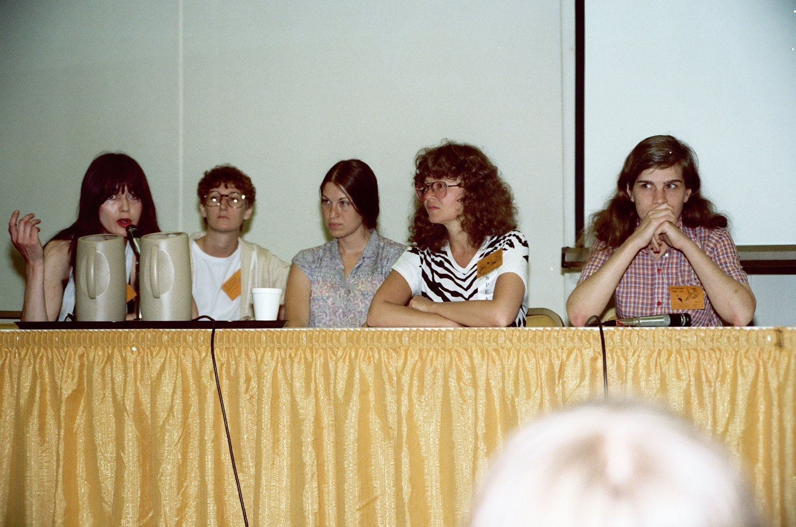 Dori Seda (1951-1988), Lee Marrs, Jan Duursema, Trina Robbins and Carol Kalish on the Women In Comics panel at the 1982 San Diego Comic Con (today called Comic-Con International).